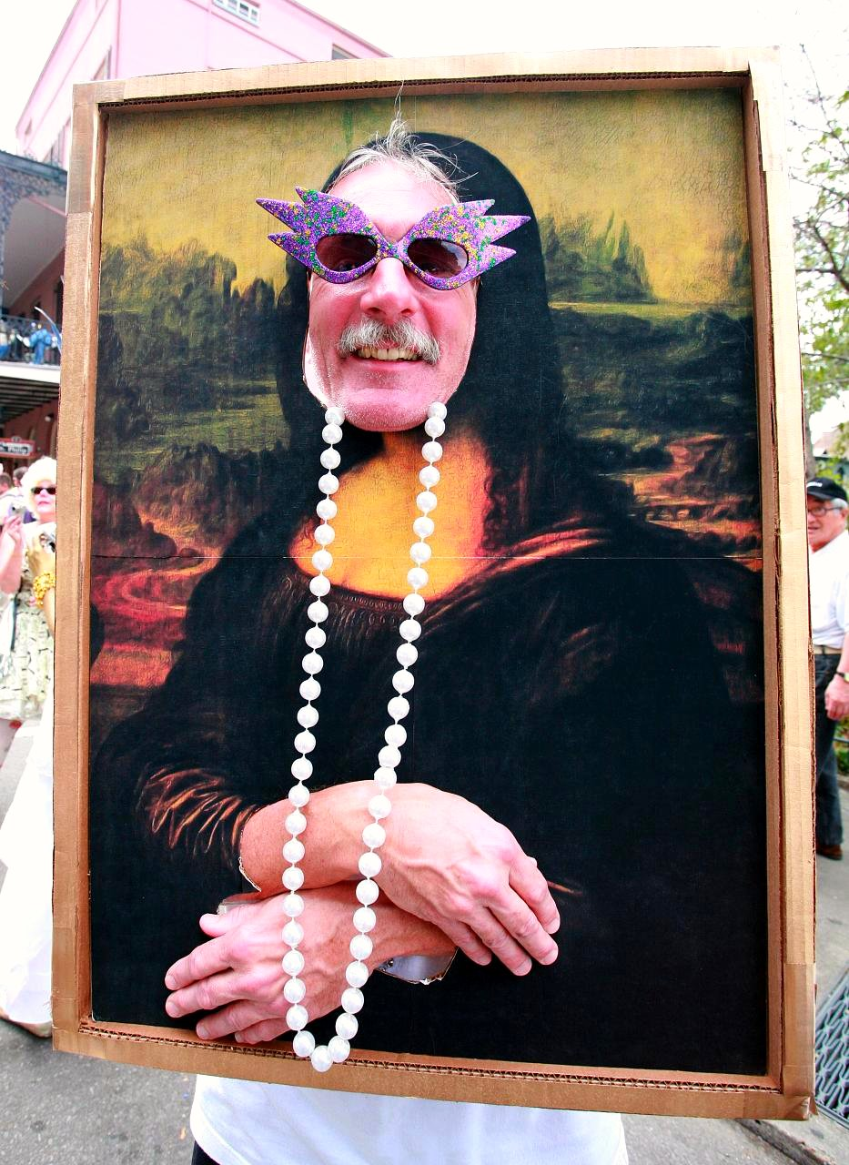 New Orleans Mardi Gras Costumer. Mona Lisa has a sex change.